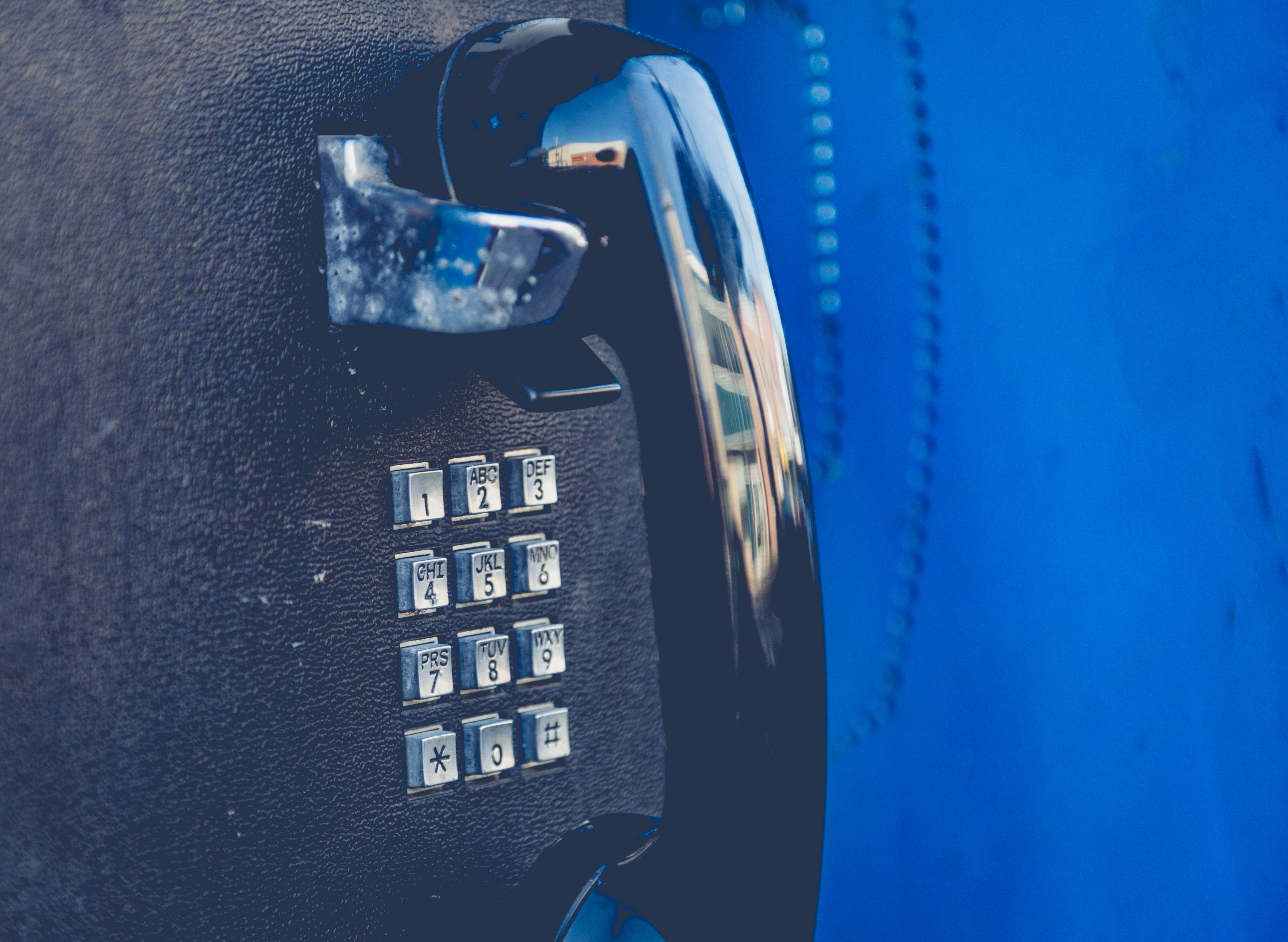 An old payphone along Prince Street in Truro, Nova Scotia, Canada.